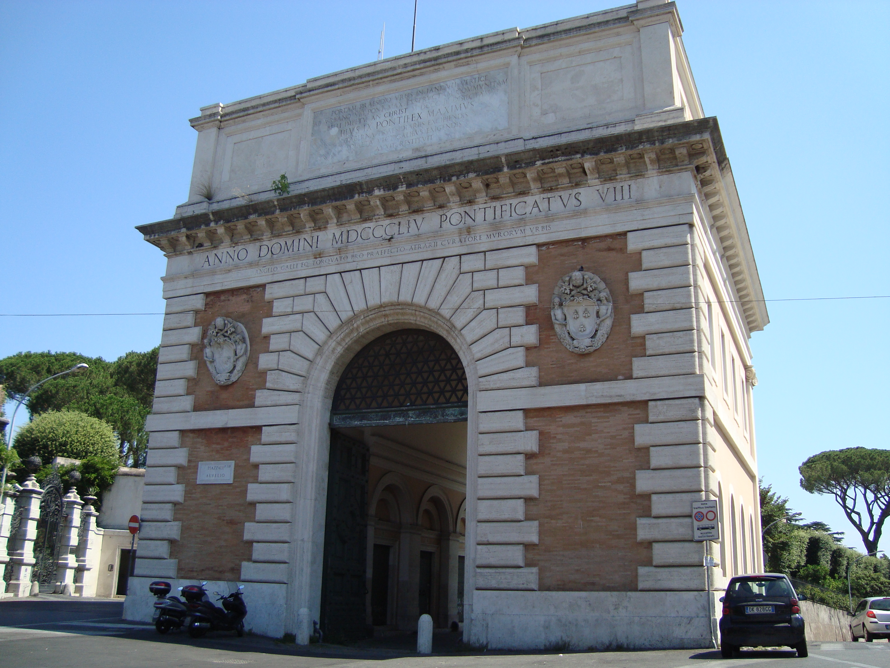 Porta San Pancrazio in Rome, external view